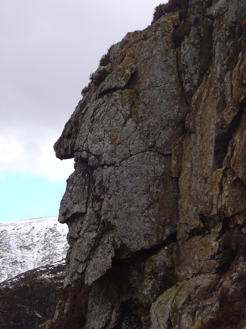 Grey Man of The Merrick. Natural rock formation located near Loch Enoch